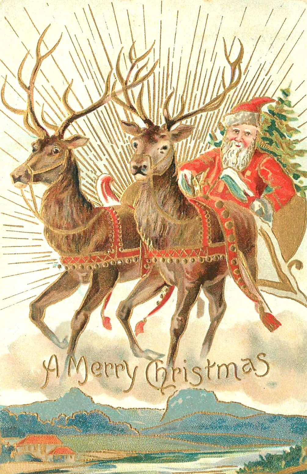 Christmas postcard of Santa Claus and his reindeer.